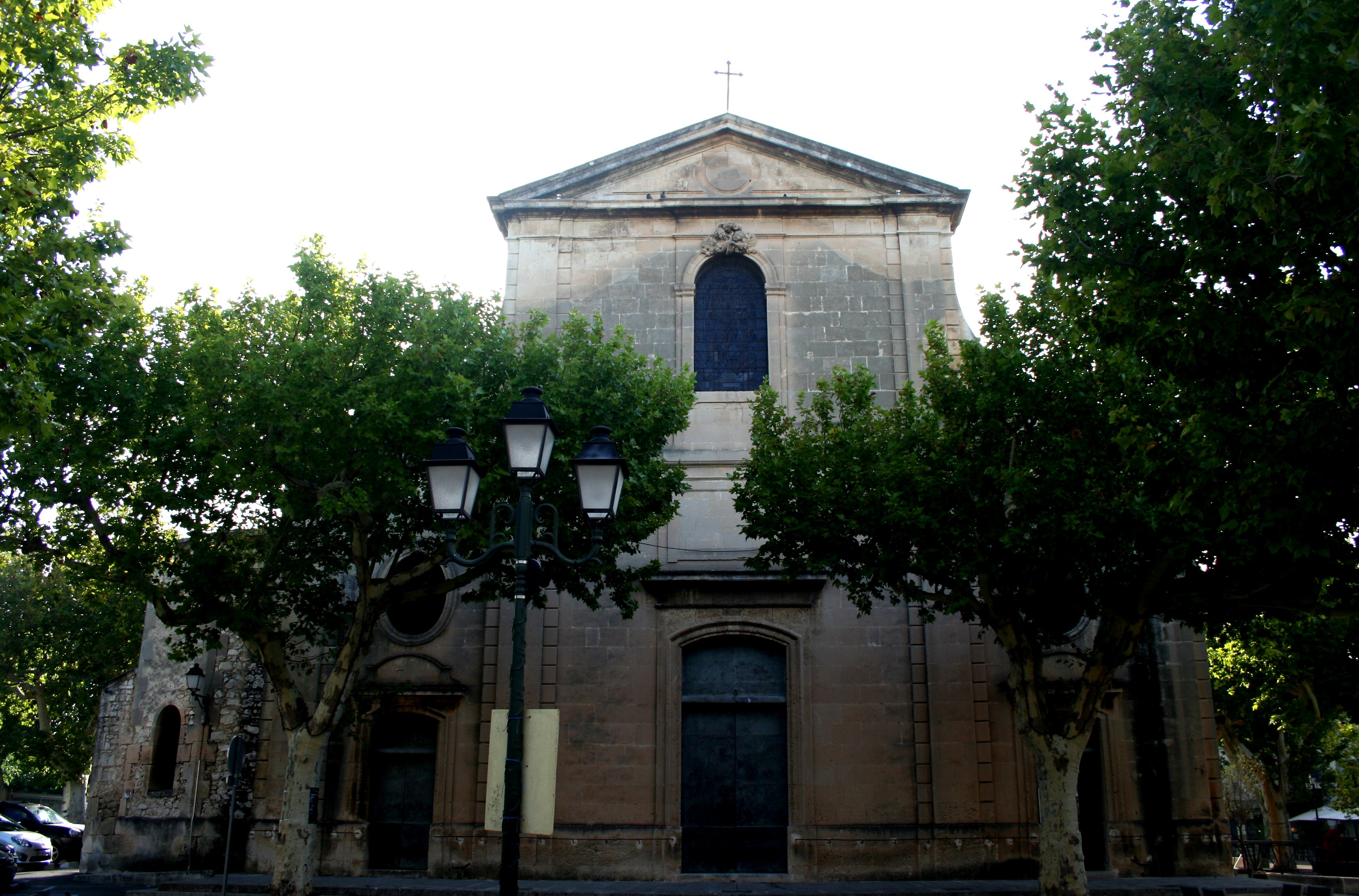 L'eglise Sainte-Croix is the church at the centre of the village of Maussane les Alpilles